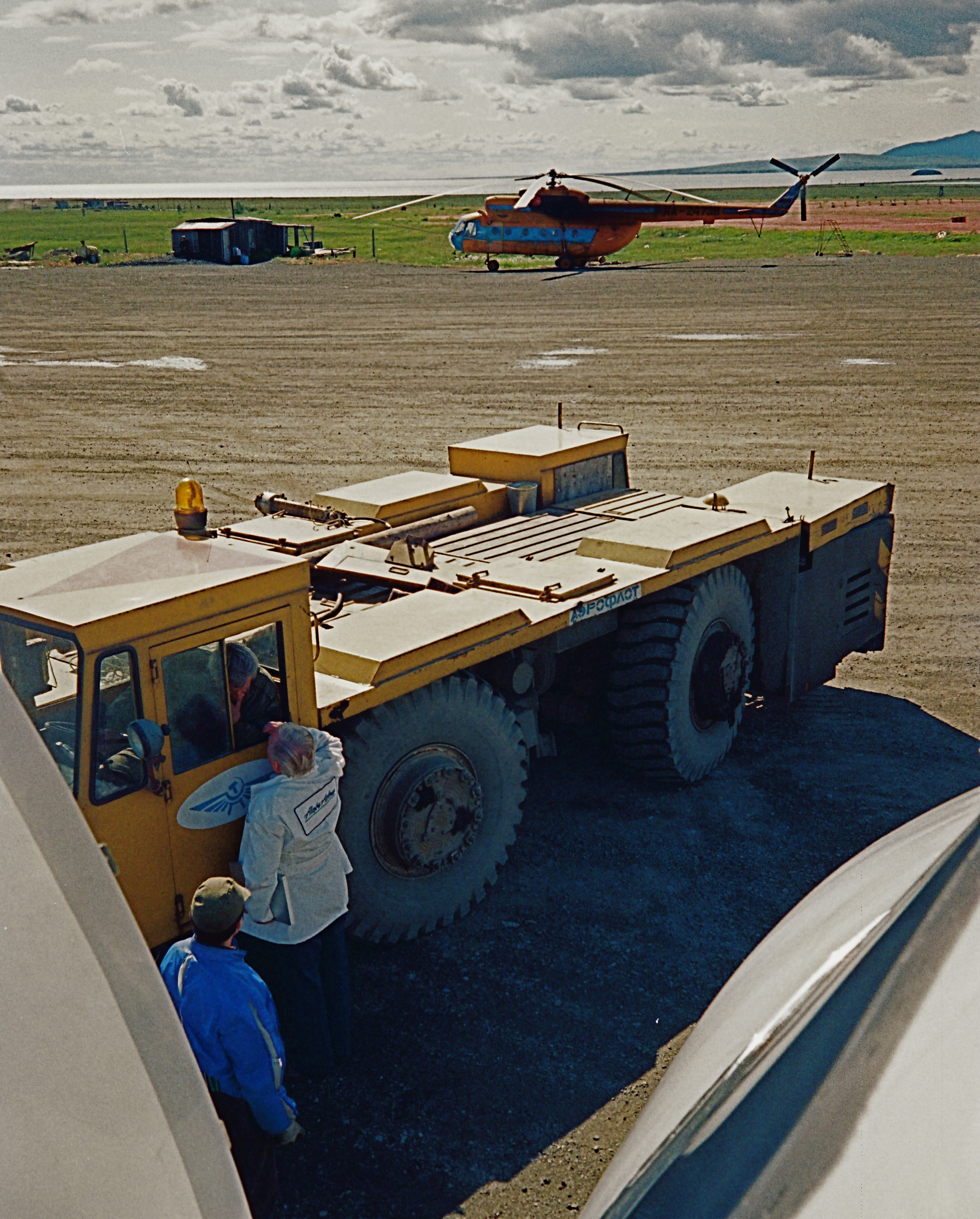 A pushback tractor at a Russian airport of Anadyr.